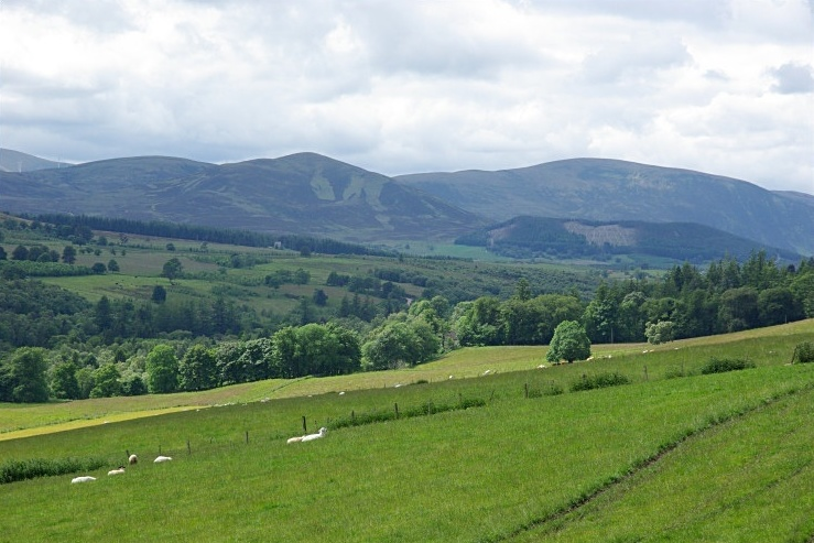 Scenery Photo